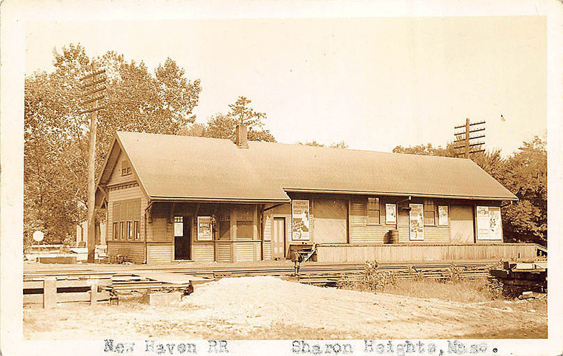 Early divided back postcard of Sharon Heights station